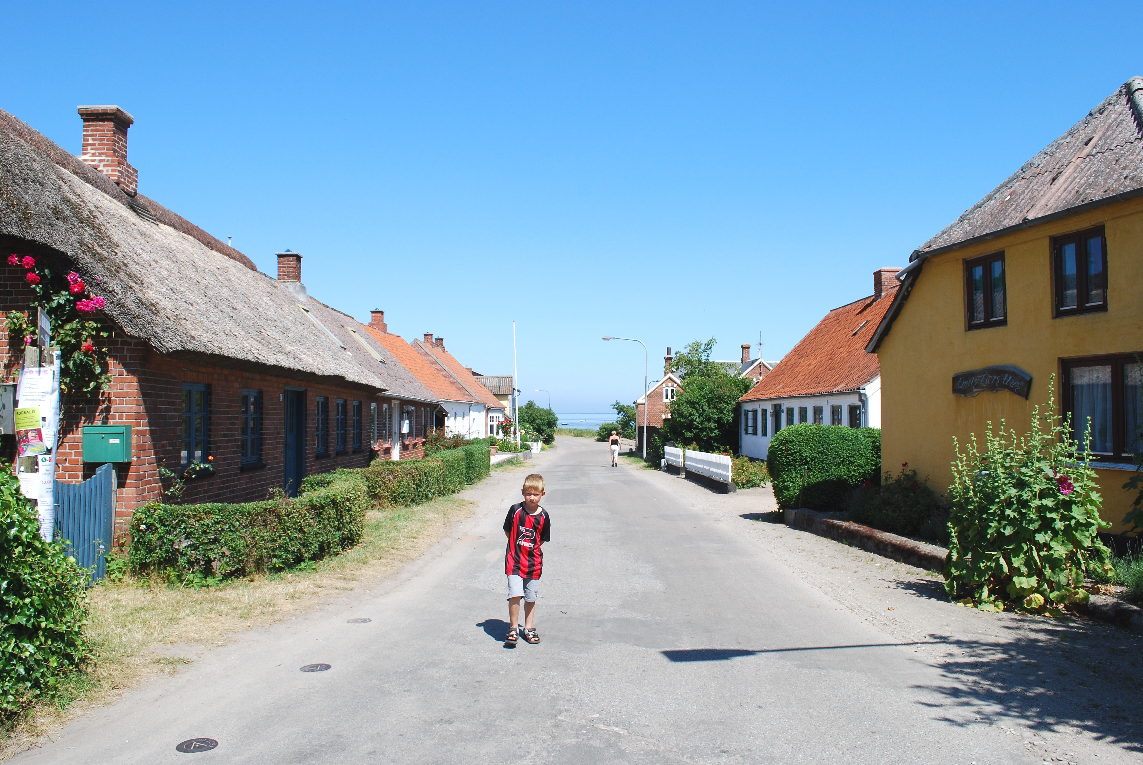 Village Endelave on the island Endelave, Denmark